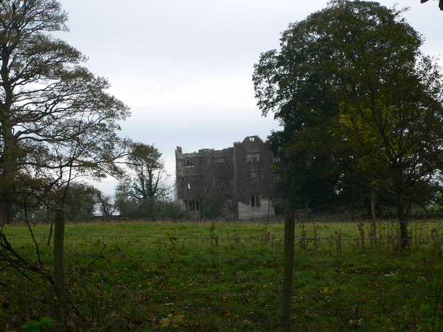 Foxhall Newydd A tall ivy-clad ruin, which was begun in the early 17th century by the Recorder of Denbigh, John Panton, whose main ambition seemed to have been a desire to outshine the efforts put into Old Foxhall. However, he went bankrupt, ironically forcing him to sell what he had done to the Lloyds, whose home he had hoped to eclipse. The house was never completed and remains a shell.